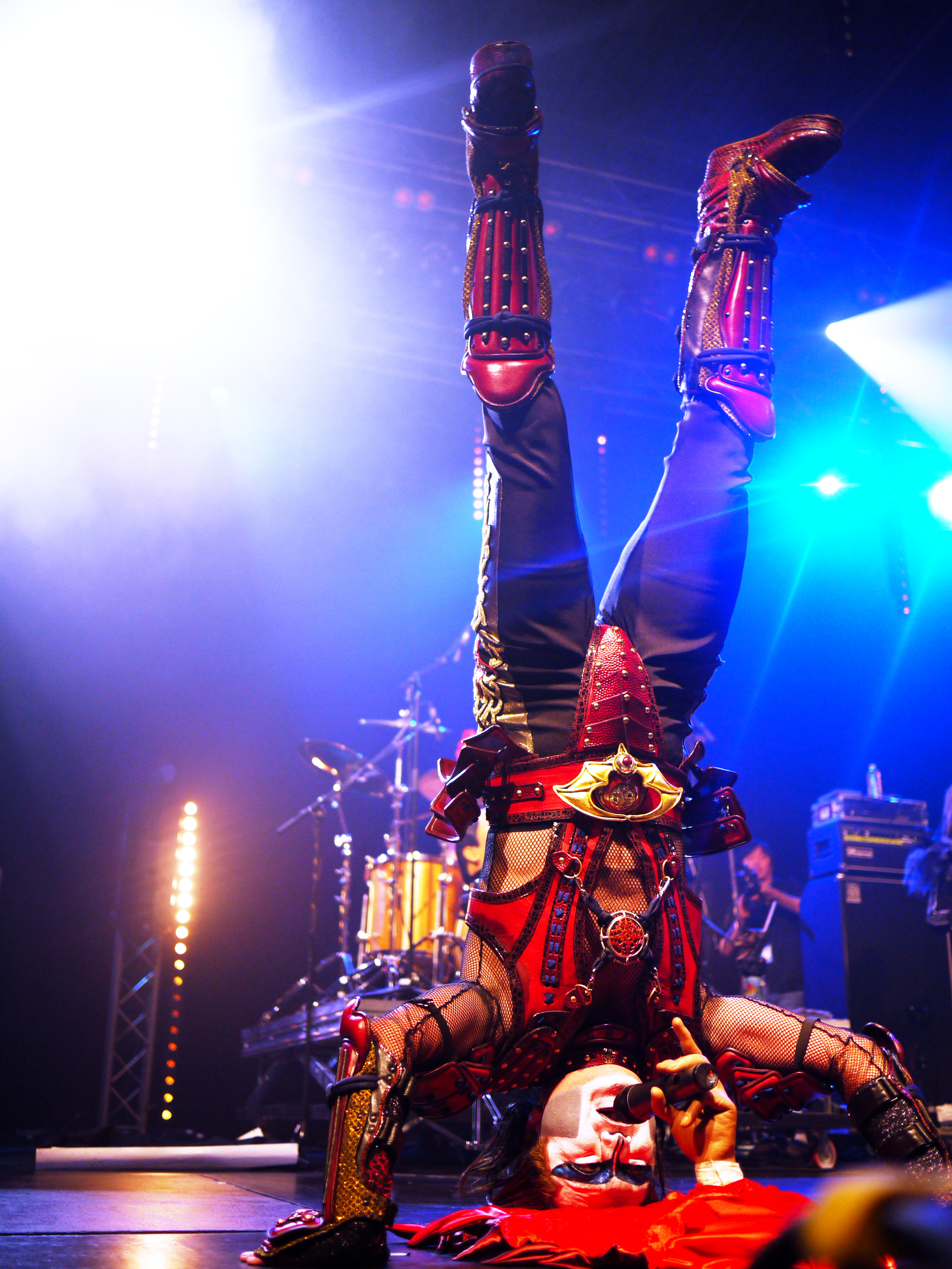 Japan Expo Festival, 11th impact